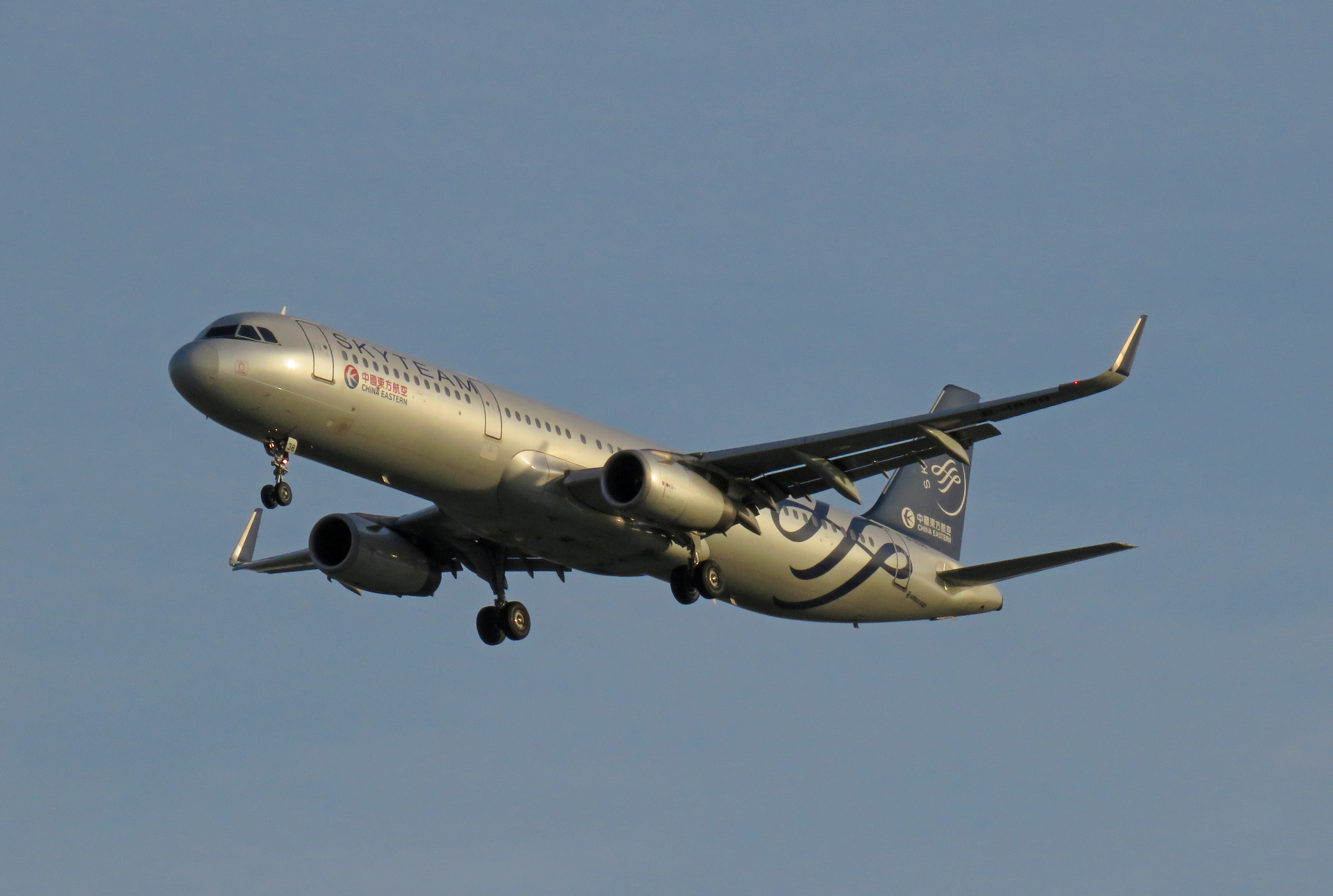 China Eastern 2109 from Xi'an. Missed that China Southern SkyTeam A321...